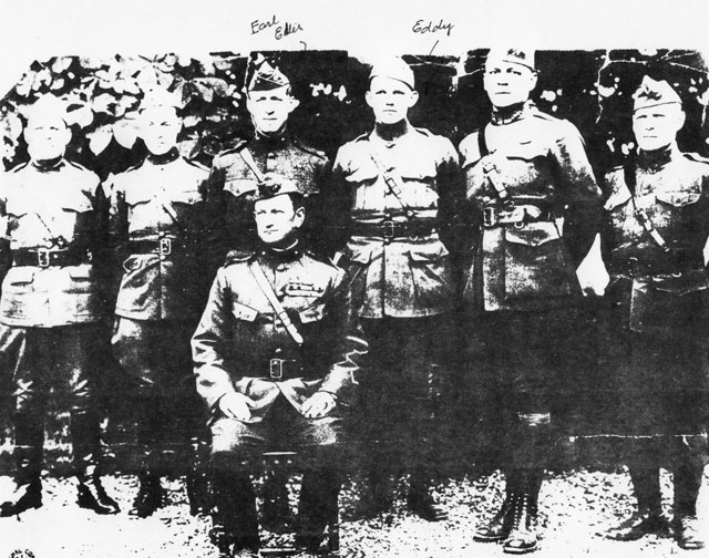 William A. Eddy as a Captain in France, 1918